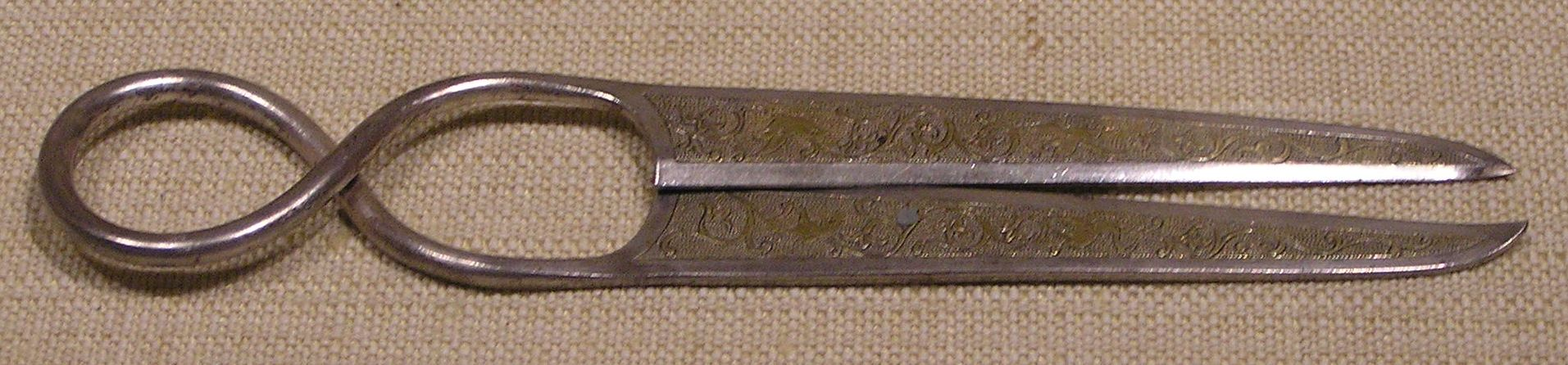 This picture was taken at the Metropolitan Museum in New York City by Yannick Trotier in 2006. It was labelled as follows: Chinese Scissors dated to the Tang Dynasty (618-907), 7th to 9th century. Silver with parcel gilding. Purchase, Arthur M. Sackler Gift, 1974 1974.268.13 !